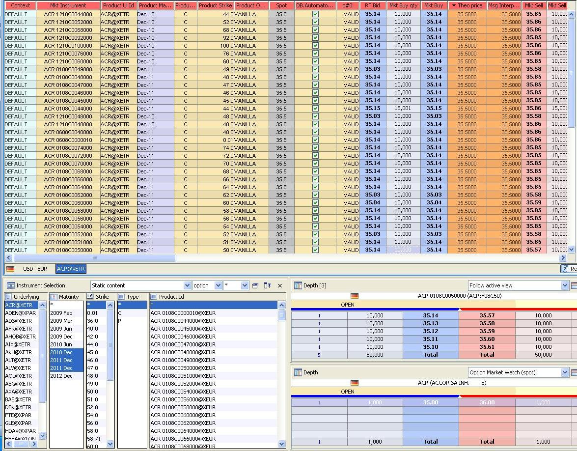 sample of market making software used by market makers to animate prices on financial markets